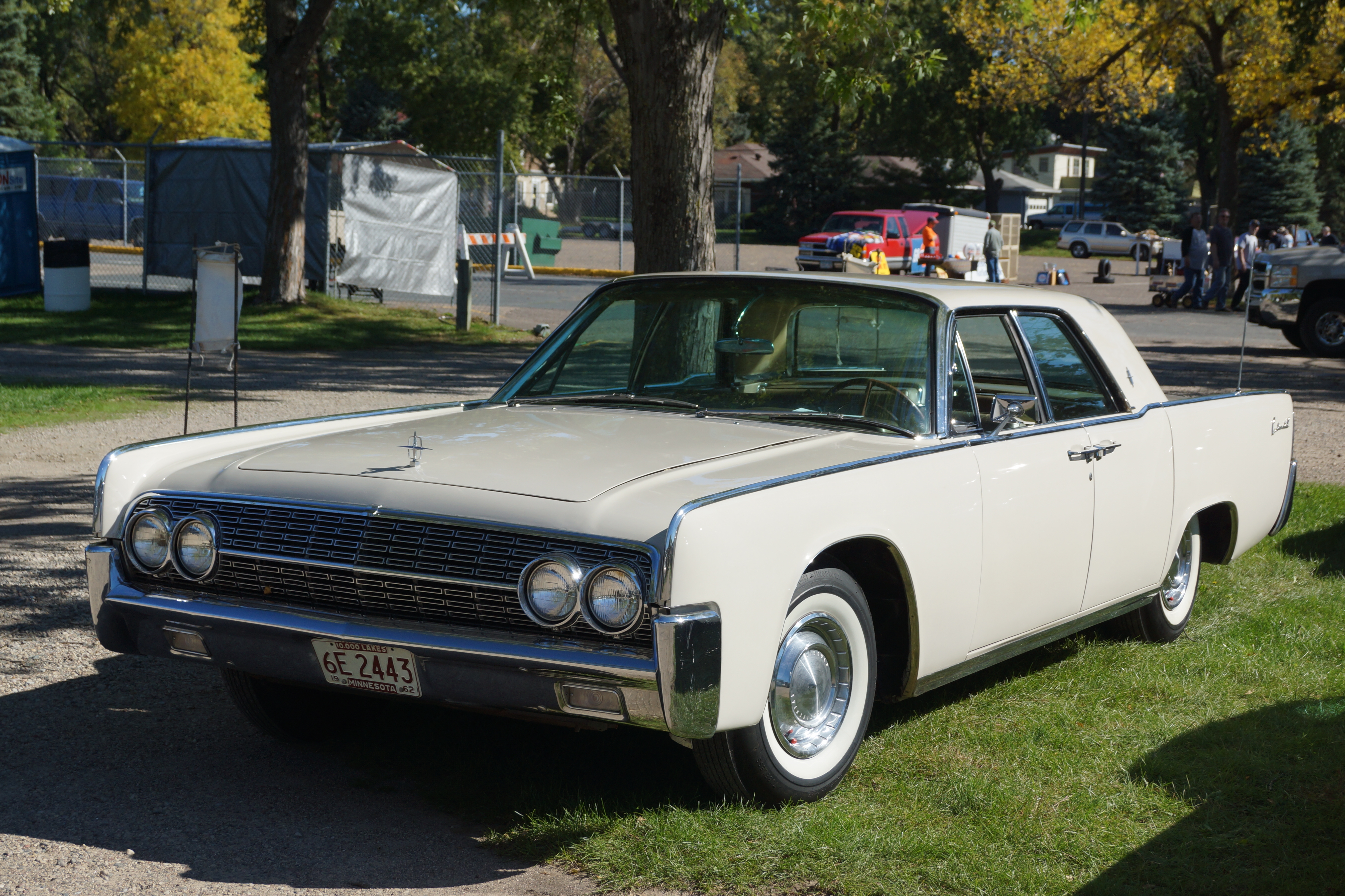 46th Annual Midwest Fall Swapmeet & Car Show Sponsored by the Capitol City Chapter of the AACA and the Twin Cities Model "A" Ford Club Minnesota State Fairgrounds St. Paul, Minnesota October 2016 Click here for more car pictures at my Flickr site.